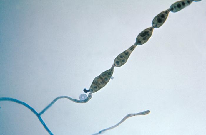 ID#: 3962 Description: This photomicrograph shows a chain of conidia of a Alternaria sp. fungus, which can be a cause of phaeohyphomycosis. The spores of Alternaria sp. fungi are multi-cellular, pigmented, and are produced in straight chains, or branching chains. The end of the conidium nearest the conidiophore is round as it tapers towards its apex, imparting a beak-like appearance. Content Providers(s): CDC/Dr. Lucille K. Georg Creation Date: 1955 Copyright Restrictions: None - This image is in the public domain and thus free of any copyright restrictions. As a matter of courtesy we request that the content provider be credited and notified in any public or private usage of this image.